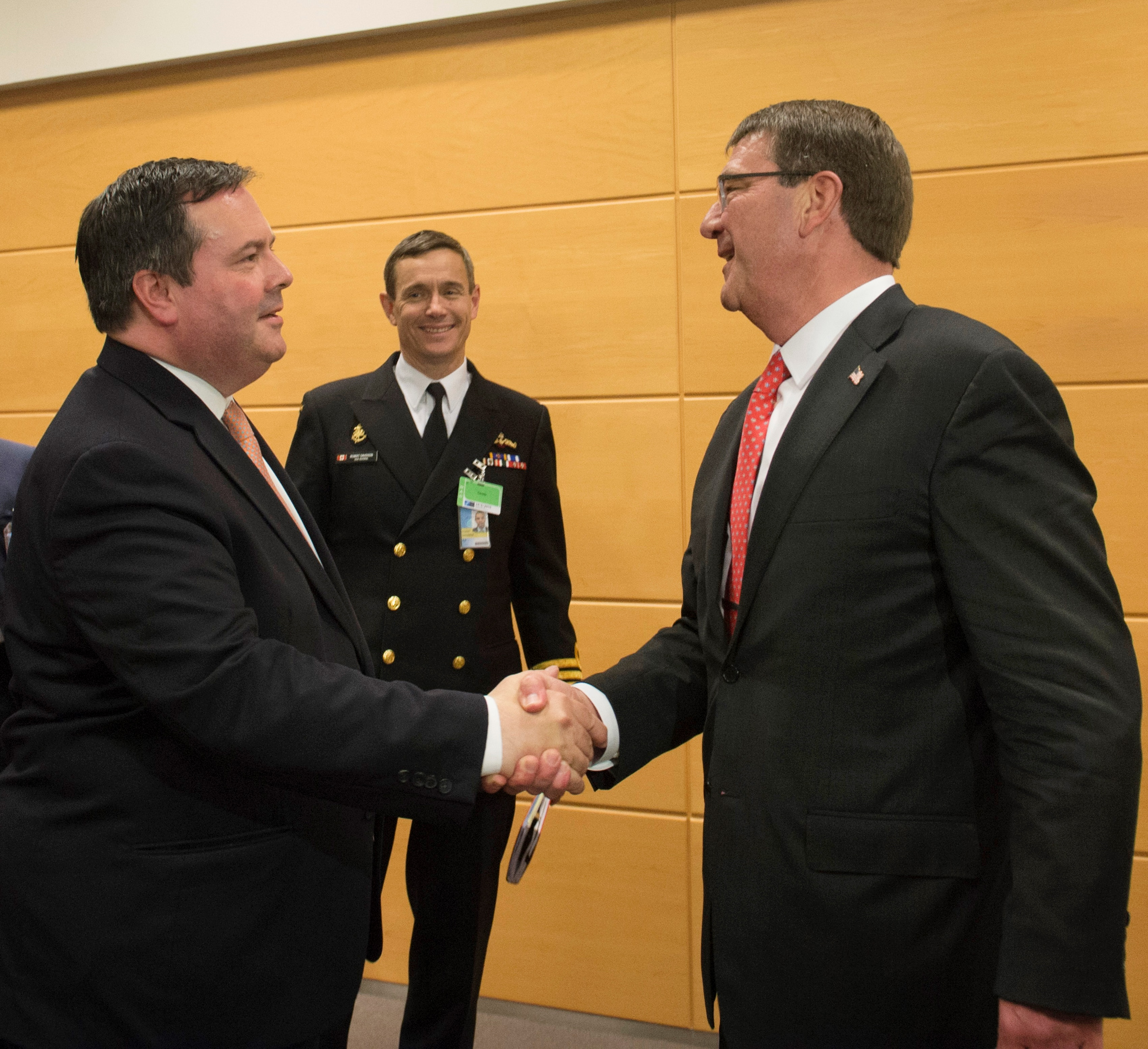 Secretary of Defense Ash Carter greets Jason Kenney, Canadian Minister of National Defense at NATO Headquarters in Brussels, Belgium as they prepare to meet for a bilateral discussion to discuss matters of mutual importance. Carter is participating in his first NATO ministerial as defense secretary June 24, 2015.